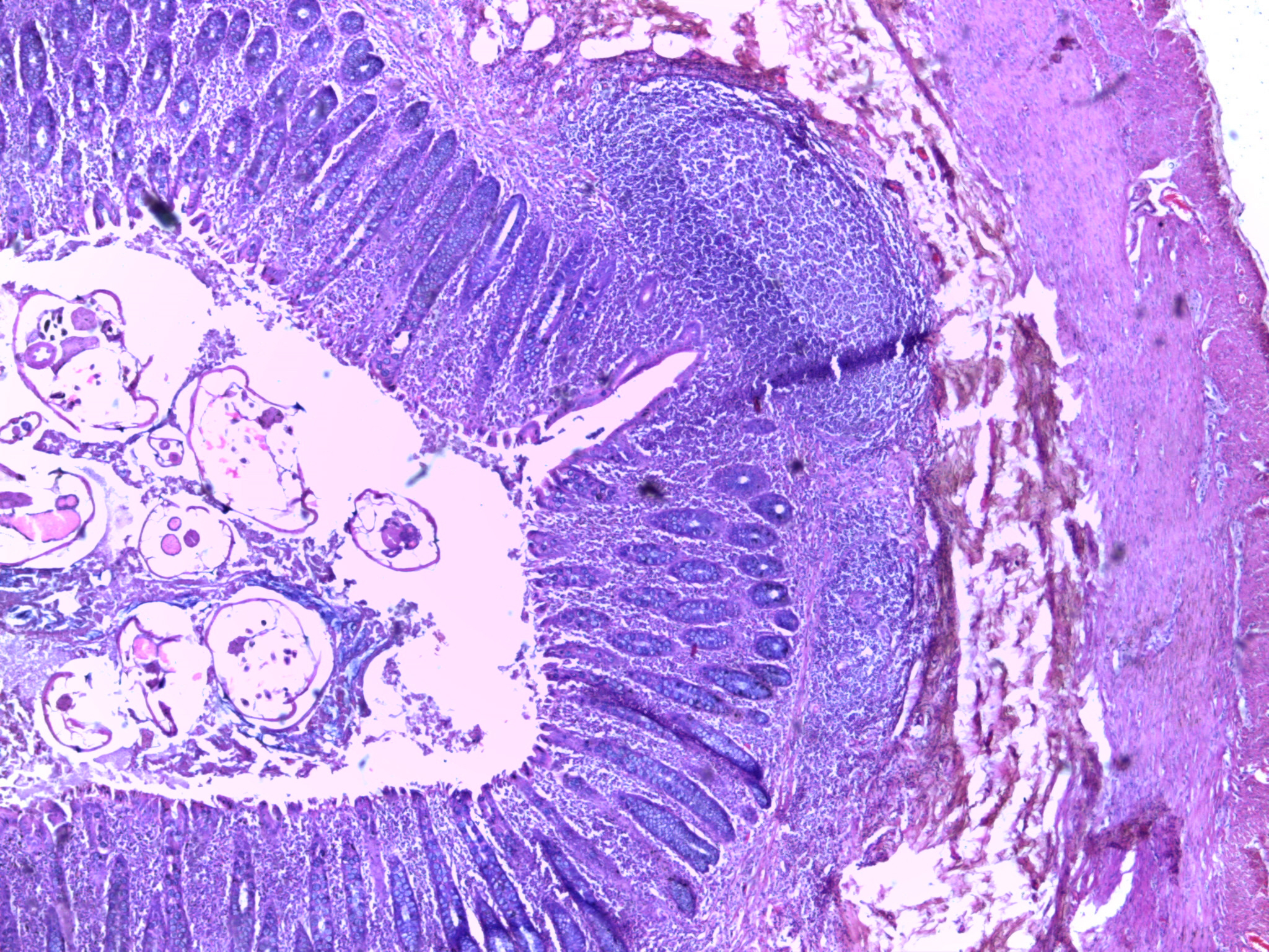 Micrograph showing lumen of appendix and cut section of pin worm.